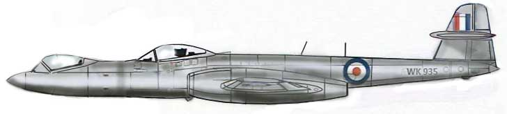 AW Meteor F.8 Prone Pilot experimental aircraft.